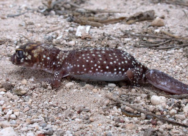 This is photograph of a Barking Gecko (Underwoodisaurus milii) on West Wallabi Island in the Houtman Abrolhos.